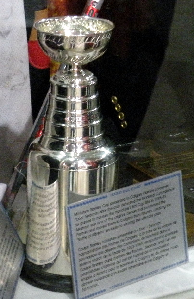 Replica Stanley Cup given to Calgary Flames' co-owner "Doc" Seaman after the Flames won the National Hockey League championship in 1989. Part of a Hockey Hall of Fame display at the 2012 World Junior Hockey Championships.